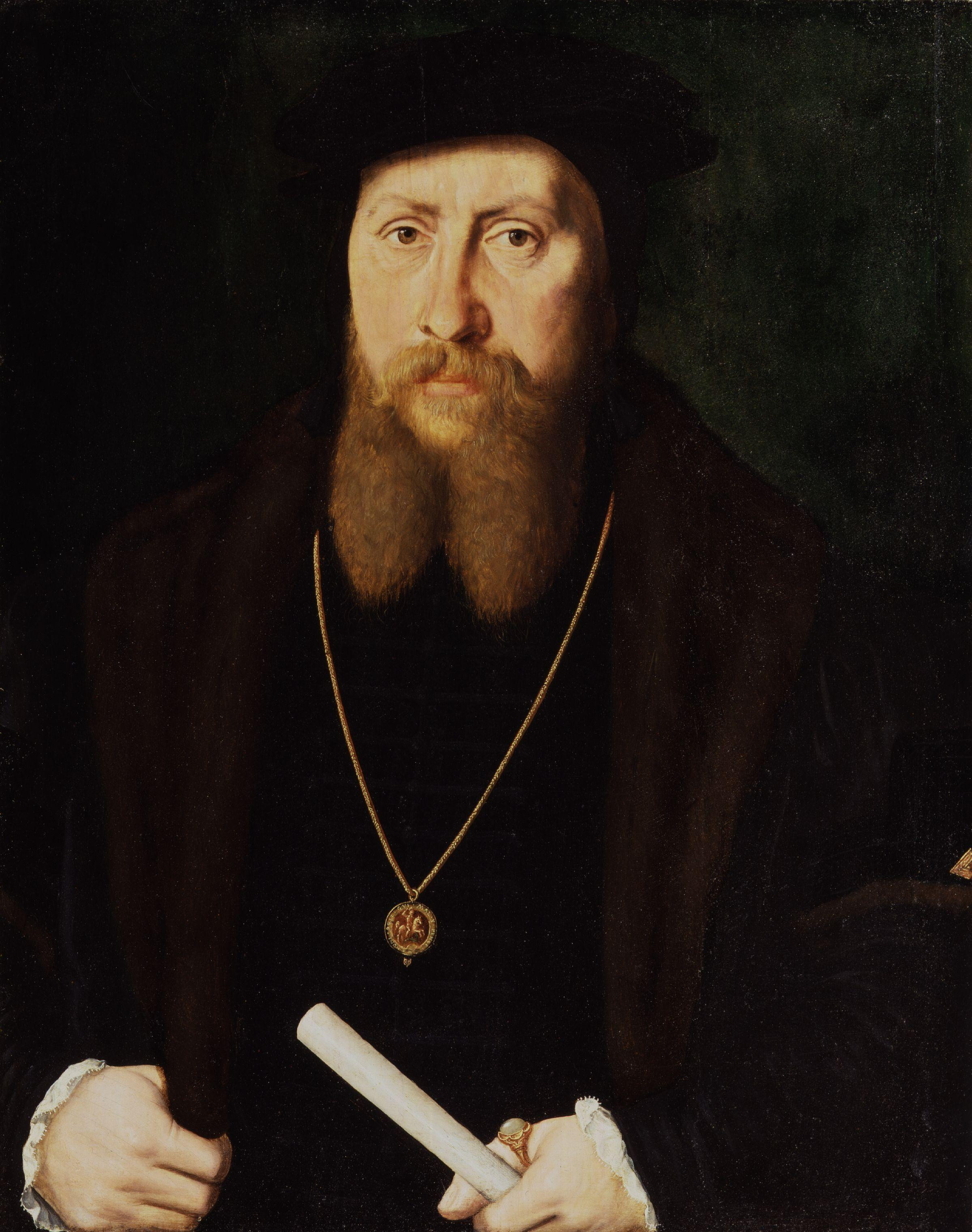 William Paget, 1st Baron Paget, by Master of the Stätthalterin Madonna (floruit 1549). All images in this batch have a known author with unknown death date, but according to the NPG's website the author was floruit (known to be active) prior to 1859, and so is reasonably presumed dead by 1939.